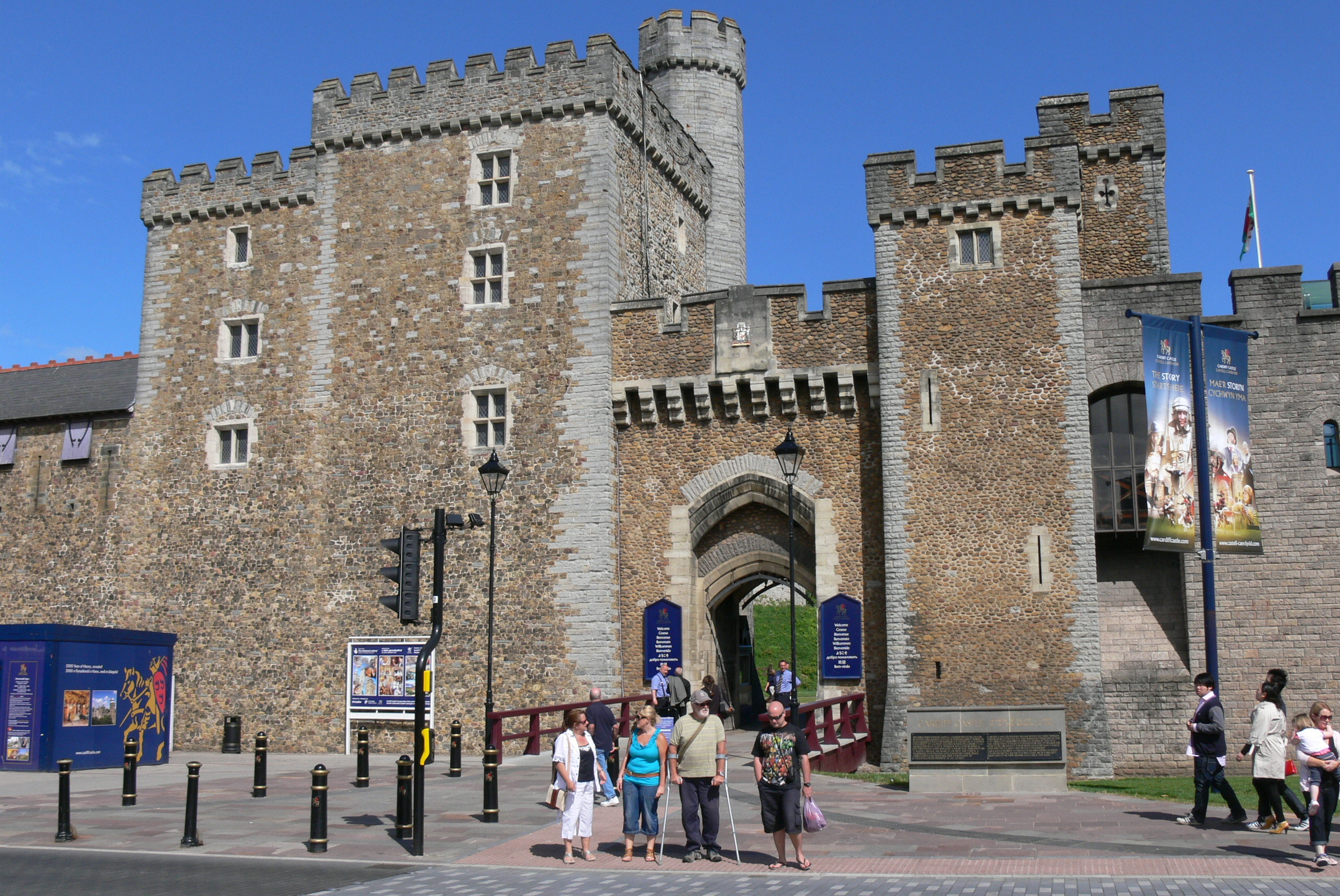 Cardiff Castle ( Wales ). Castle gate ( 13th century ).